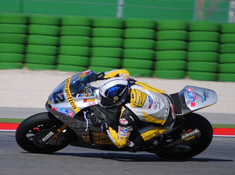 Thomas Luthi 2010 Misano